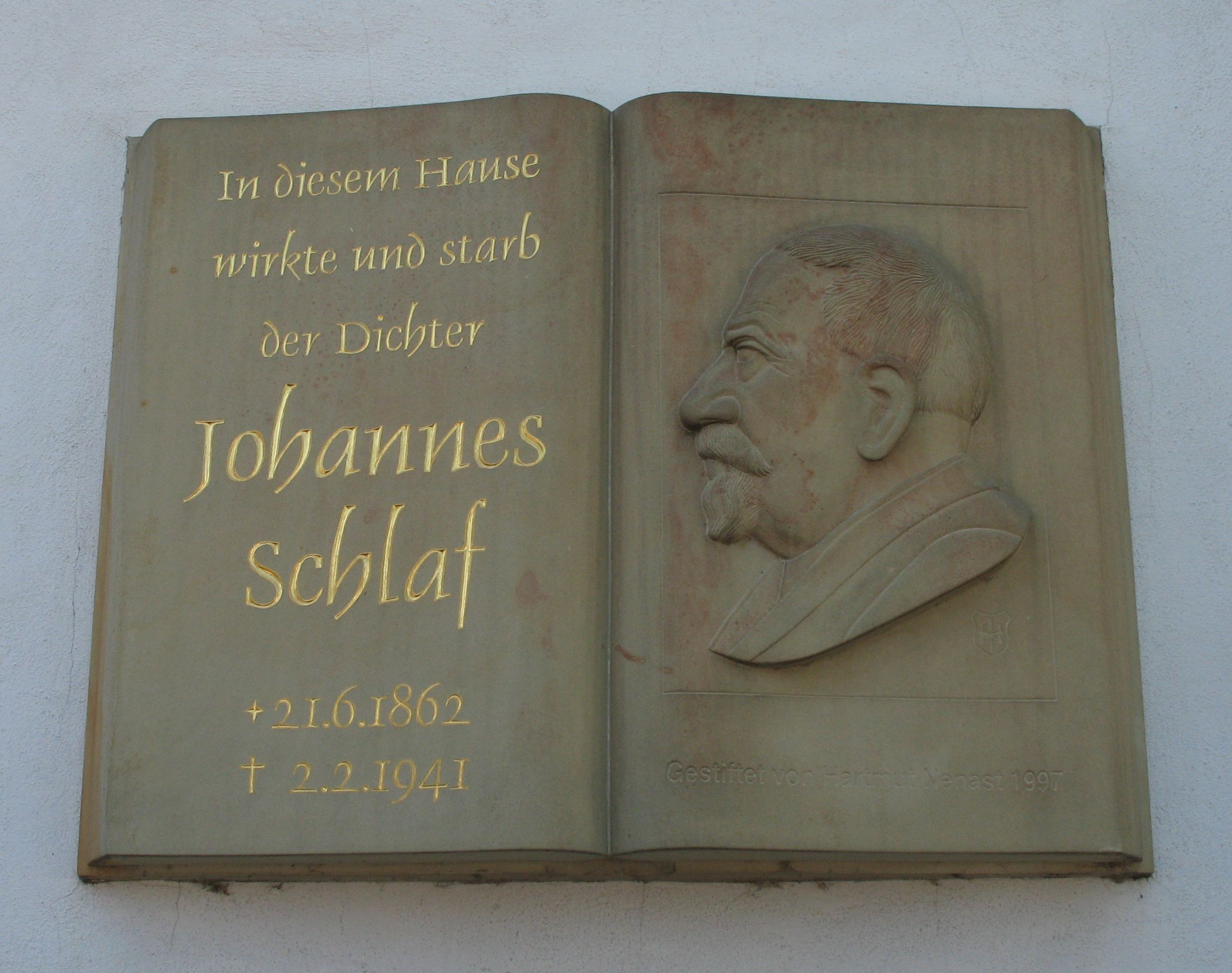 Memorial tablet for Johannes Schlaf in Querfurt in Saxony-Anhalt, Germany